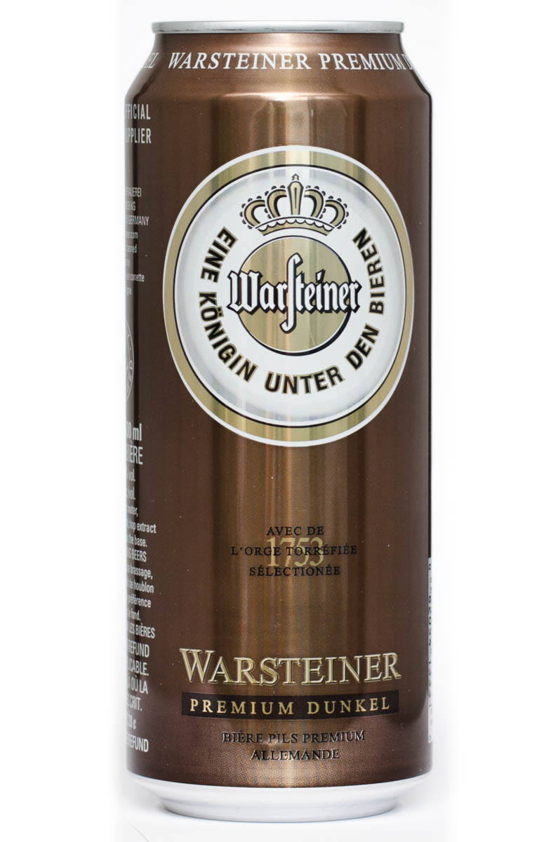 Warsteiner Premium Dunkel Eine Konigin Unter Den Bieren 1753 Avec de l'orge torrefiee selectionee Biere pils premium allemande